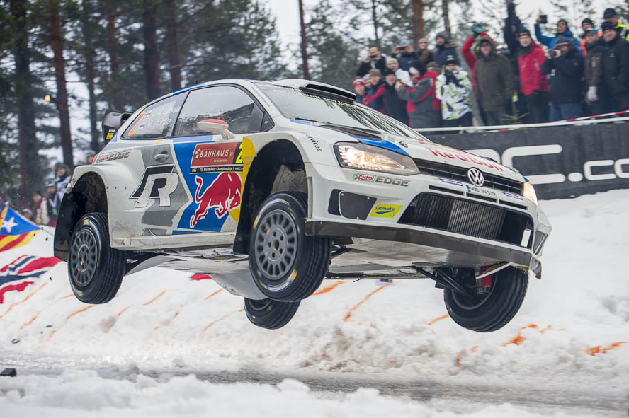 Rally Sweden 2014 Colin's Crest Arena,Jari-Matti Latvala,Mikka Anttila,Motorsport,Rally,Rally Sweden,Rallye,Rallye Schweden,SS19,VW Polo R WRC,Vargäsen 1,Volkswagen Motorsport,Volkswagen Polo R WRC,WP19